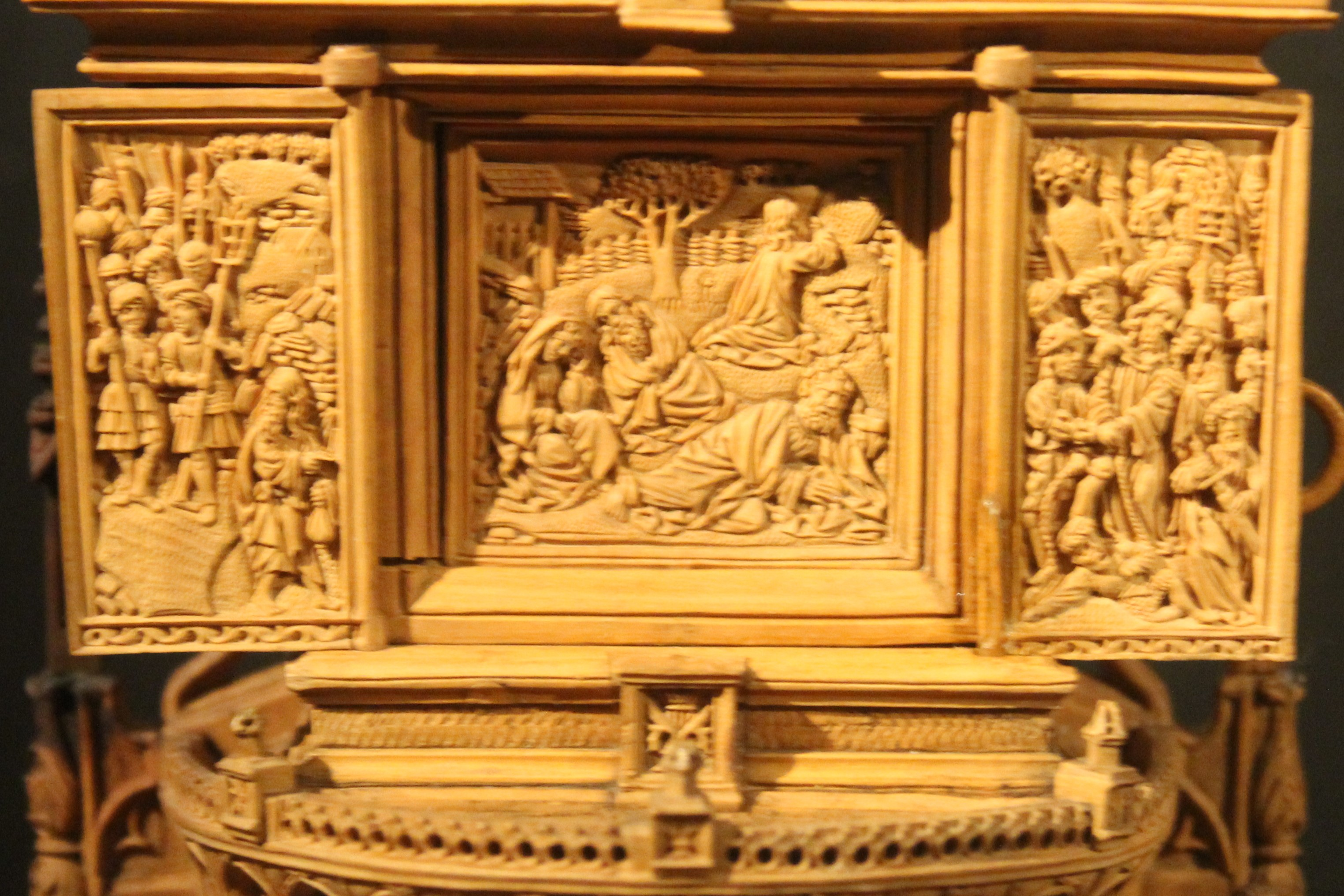 Portable altar, Boxwood, circa 1511, with thanks to British Museum for allowing photography